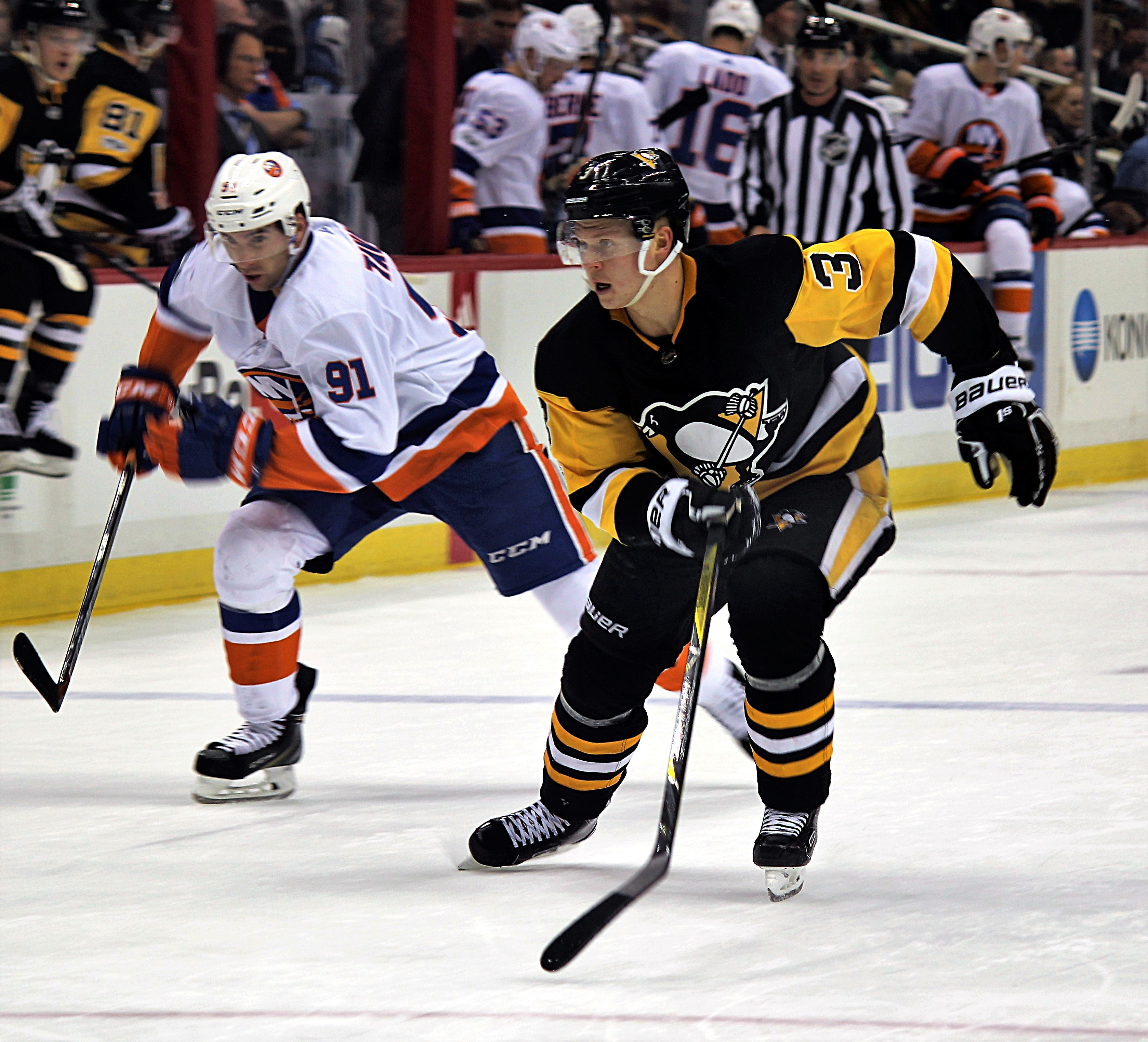 Pittsburgh Penguins defenseman Olli Maatta during a game against the New York Islanders, December 7, 2017, at PPG Paints Arena in Pittsburgh, PA.